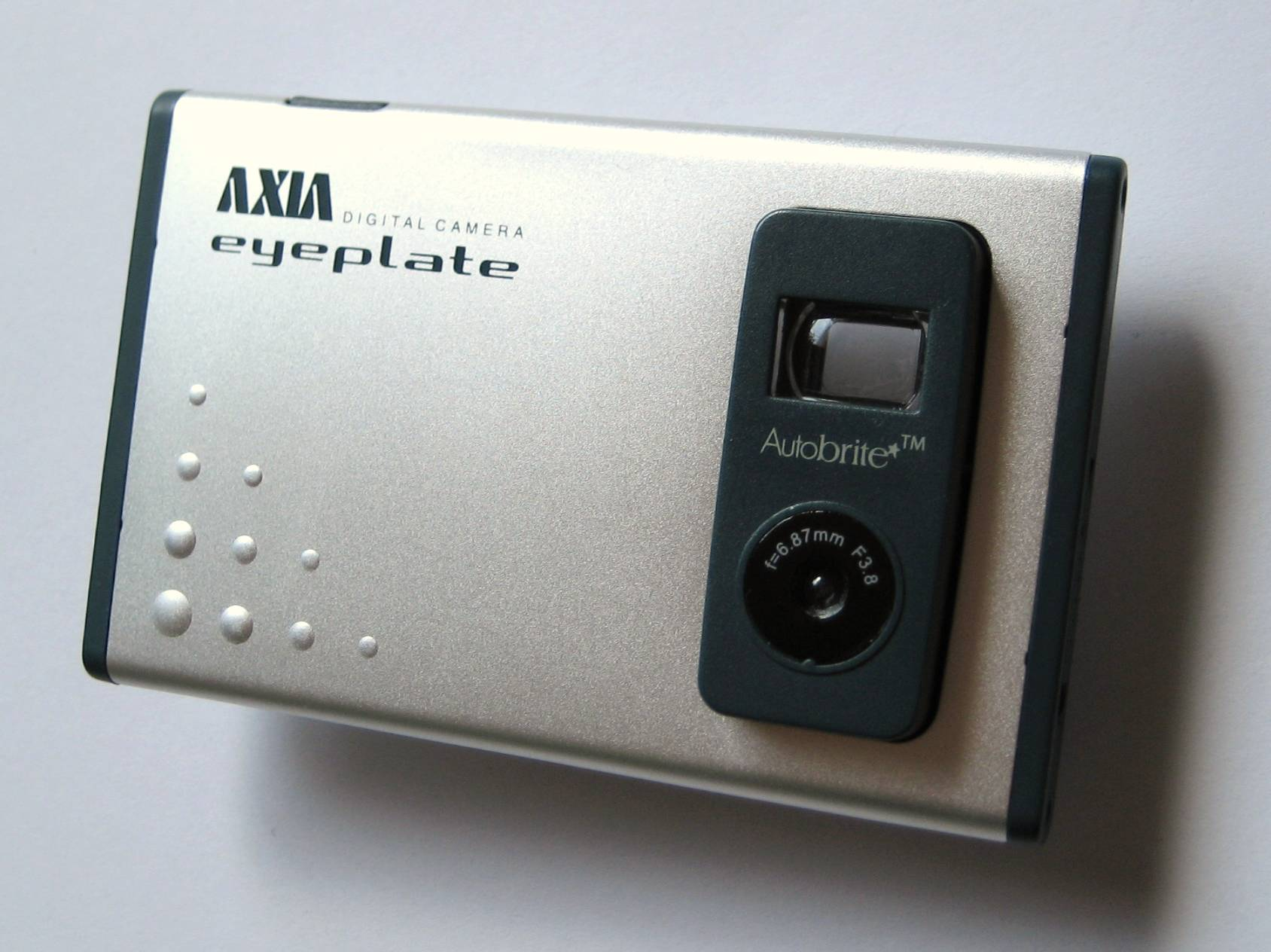 Axia eyeplate is a very thin (6 mm) digital camera (0.3 megapixels CMOS).